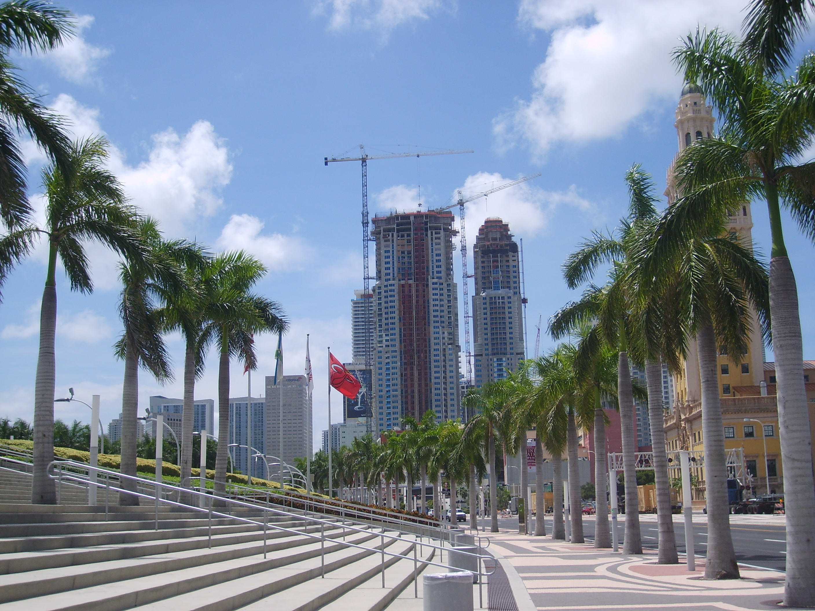 Miami_DownTown_Parvis_de_l'American_Airlines_Arena